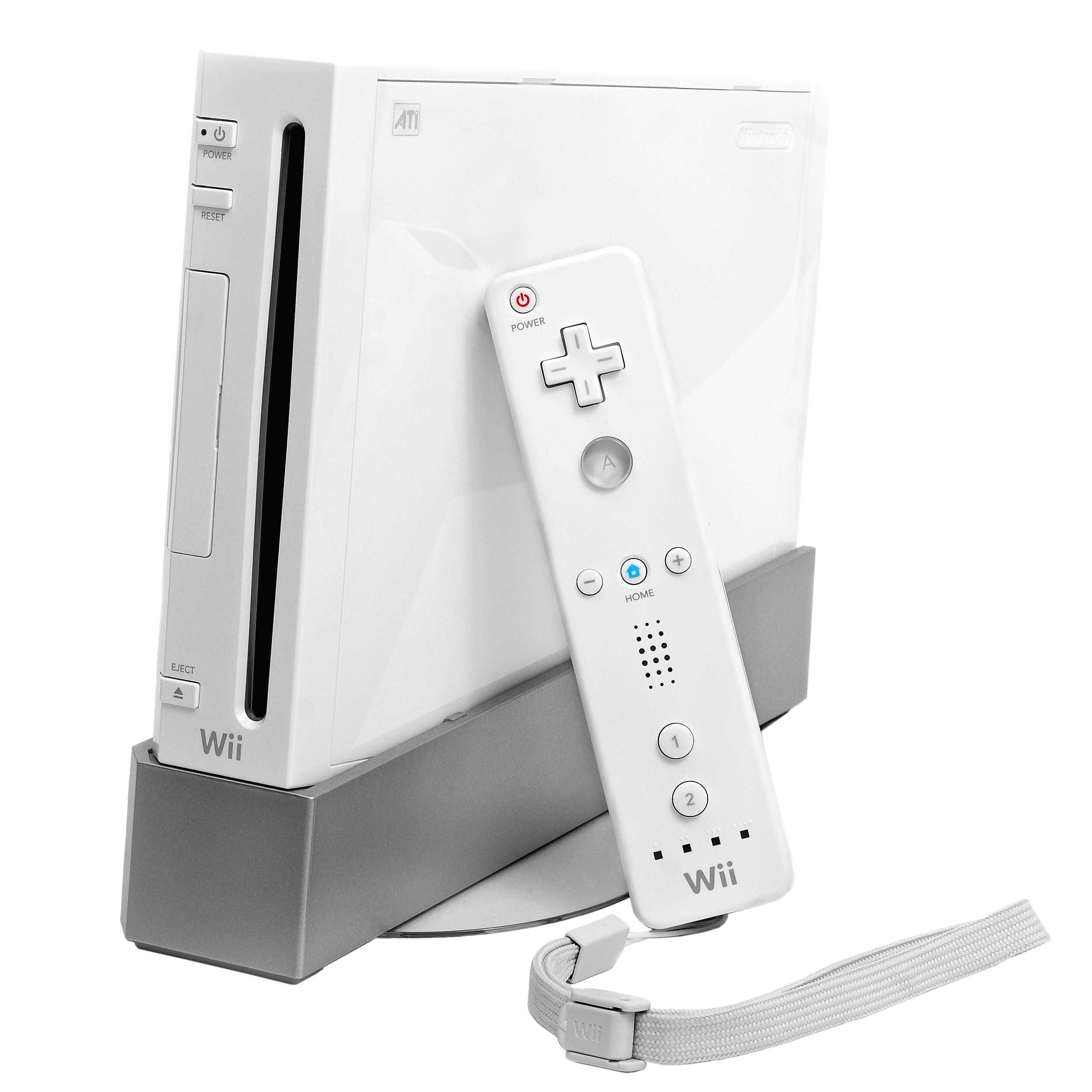 The Wii console by Nintendo. Featured with the Wiimote.